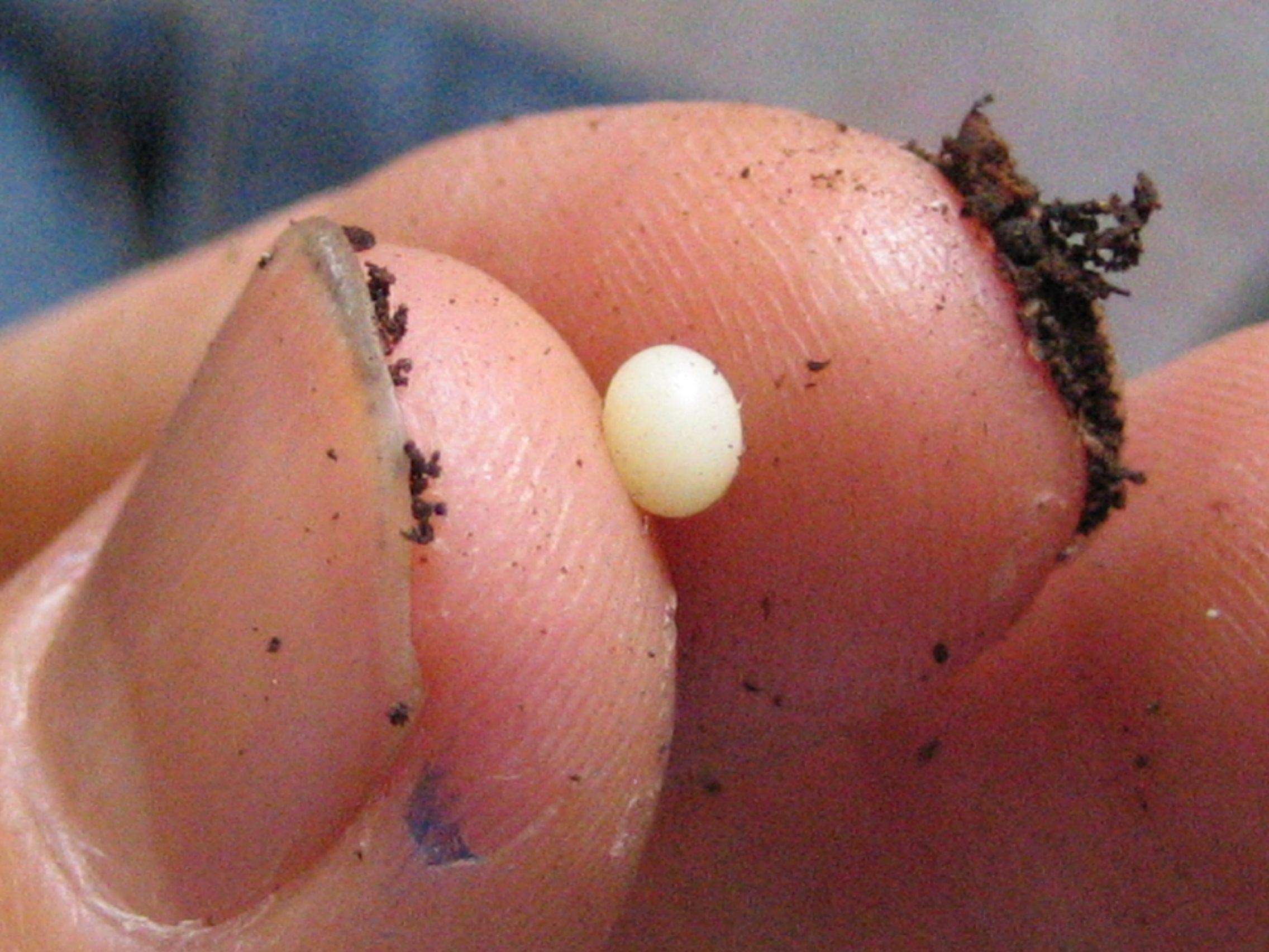 egg of Oryctes nasicornis,photo taken in Jena (Iéna), Germany